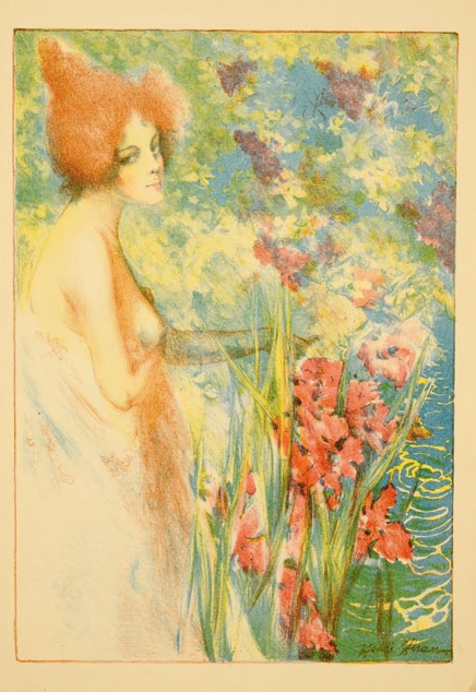 Fleur de mai by Henri Héran, lithographic print from L'Estampe moderne, vol. I, Paris, F. Champenois.